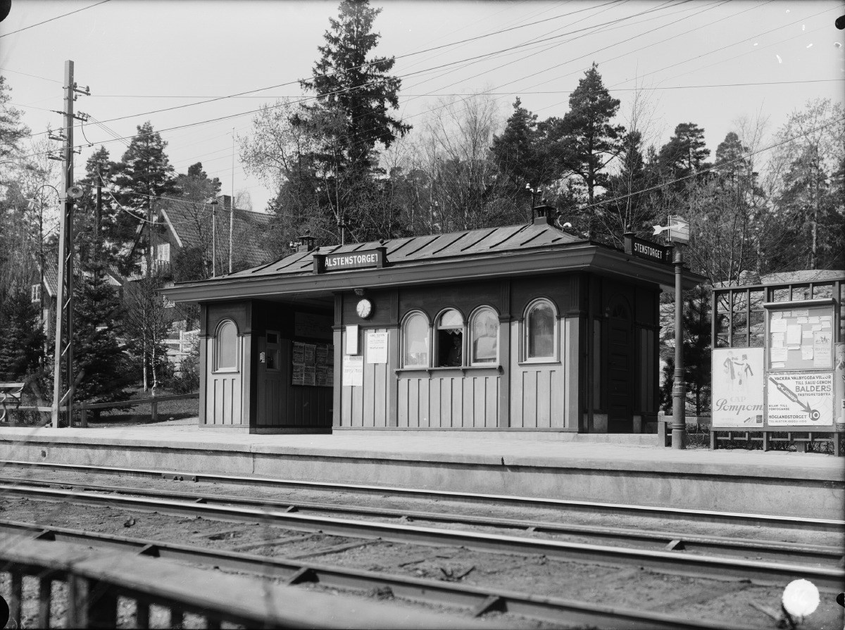 Ålstenstorget, hållplats för spårvagnar vid Ålstensgatan, Bromma. Väntpaviljongen ritades av Waldemar Johansson.